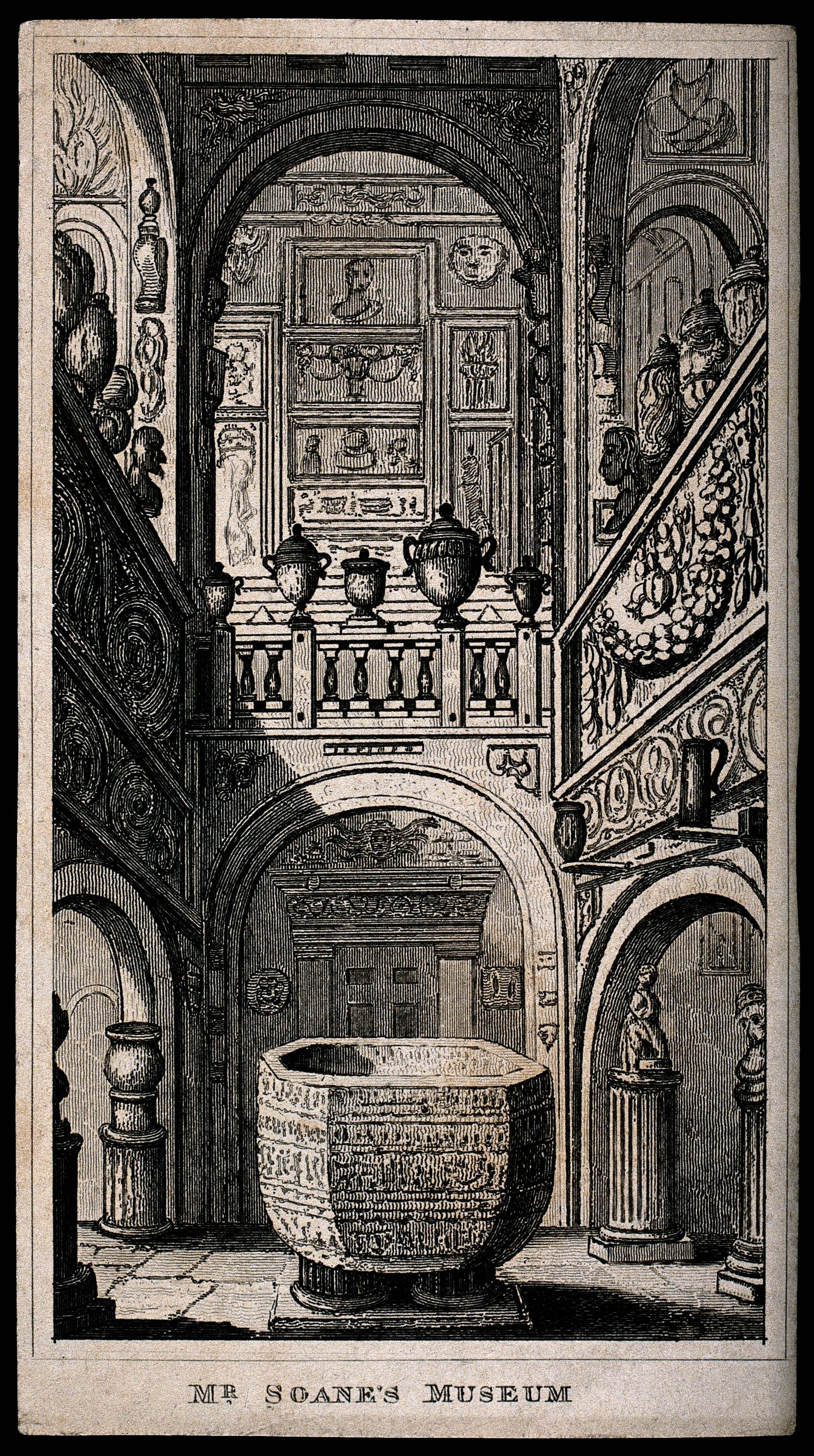 Sir John Soane's House and Museum: the Belzoni Chamber at basement level, showing the sarcophagus of Seti I. Engraving. Iconographic Collections Keywords: Sir John Soane's House (Lincoln's Inn Fields, London); Giovanni Battista Belzoni; John Soane; Seti I